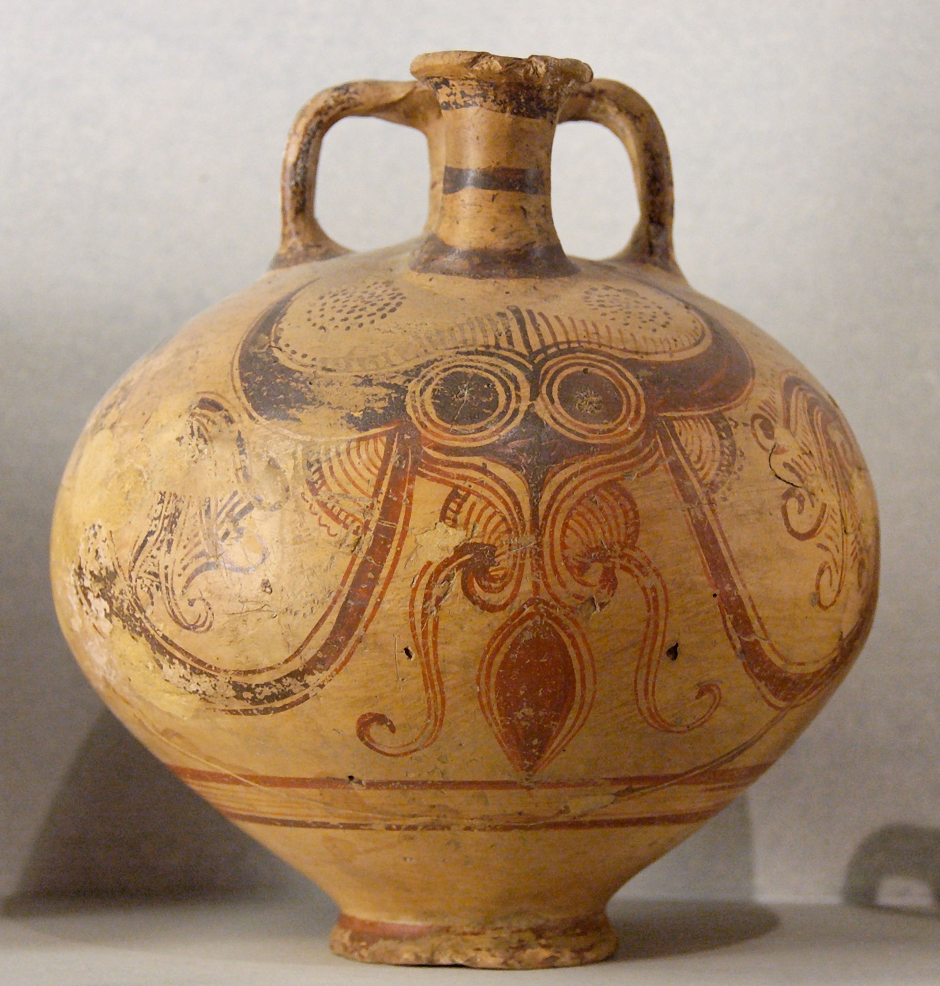 Stirrup vase with octopus from Rhodes. Terracotta, Late Helladic IIIC1 (1200–1100 BC).